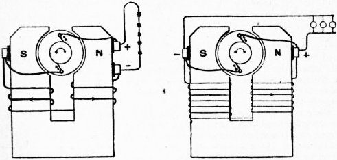 Self-exciting dynamos. Left, the series machine, shows the winding of the exciting coils to be composed of a few turns of thick wire. Since the current is undivided throughout the whole circuit, the resistance of both the armature and field-magnet winding must be low as compared with that of the external circuit, if the useful power available at the terminals of the machine is to form a large percentage of the total electrical power—in other words, if the efficiency is to be high. Right, the winding of the field-magnets is a shunt or fine-wire circuit of many turns applied to the terminals of the machine; in this ease the resistance of the shunt must be high as compared with that of the external circuit, in order that only a small proportion of the total energy may be absorbed in the field.